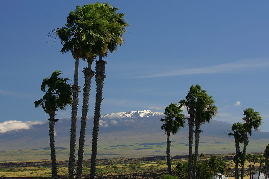 Washingtonia palm trees growing at Waikoloa Beach on the Big Island of Hawaii. Snow-covered Mauna Kea volcano in the background